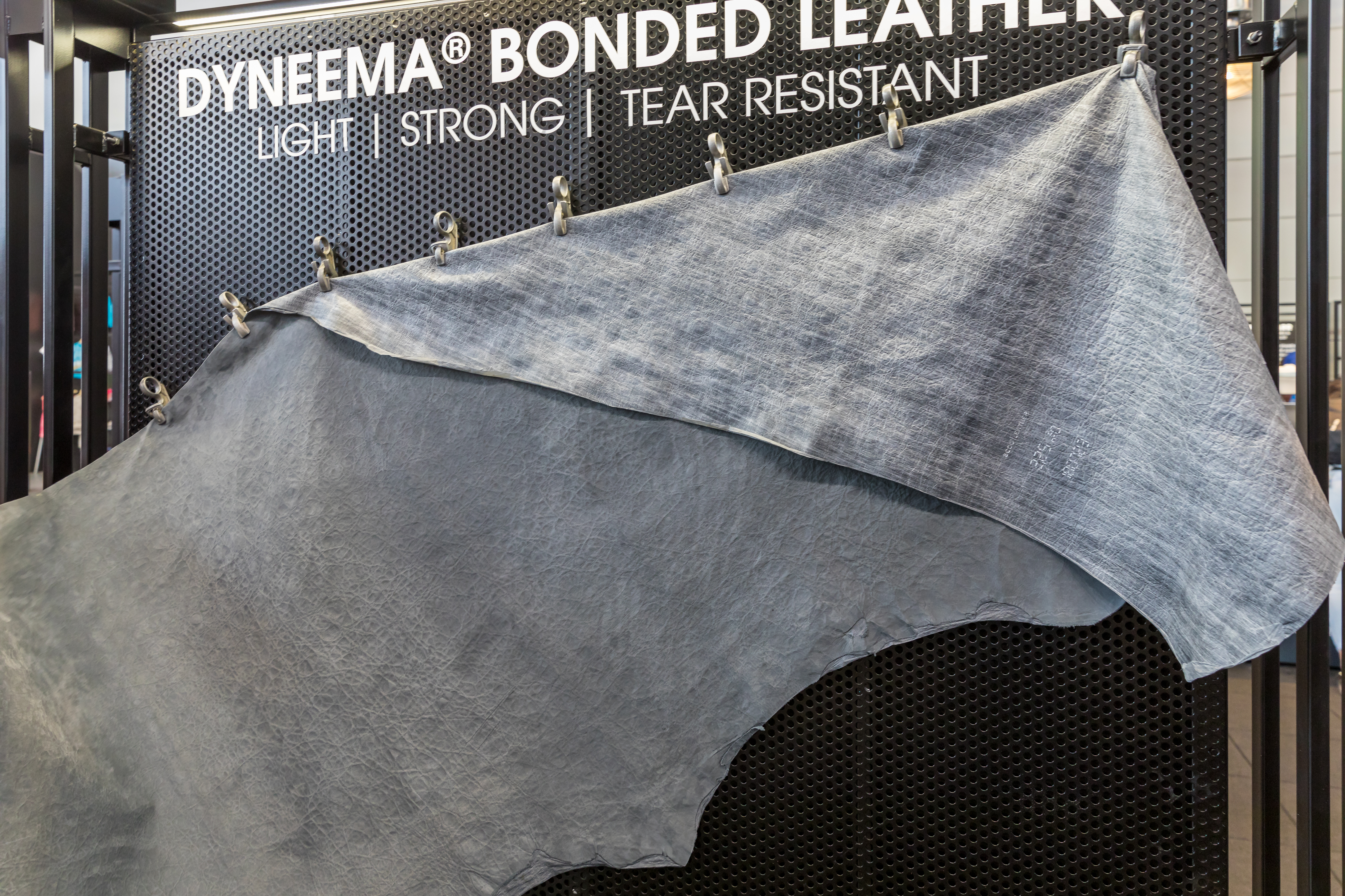 OutDoor 2018